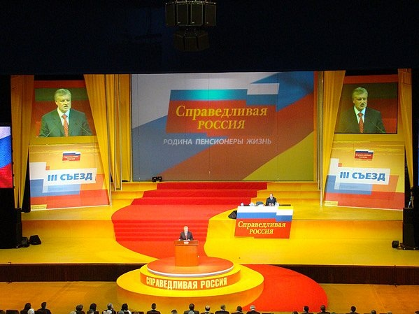 III Congress of the party "A Just Russia", Moscow, Kremlin Palace of congresses